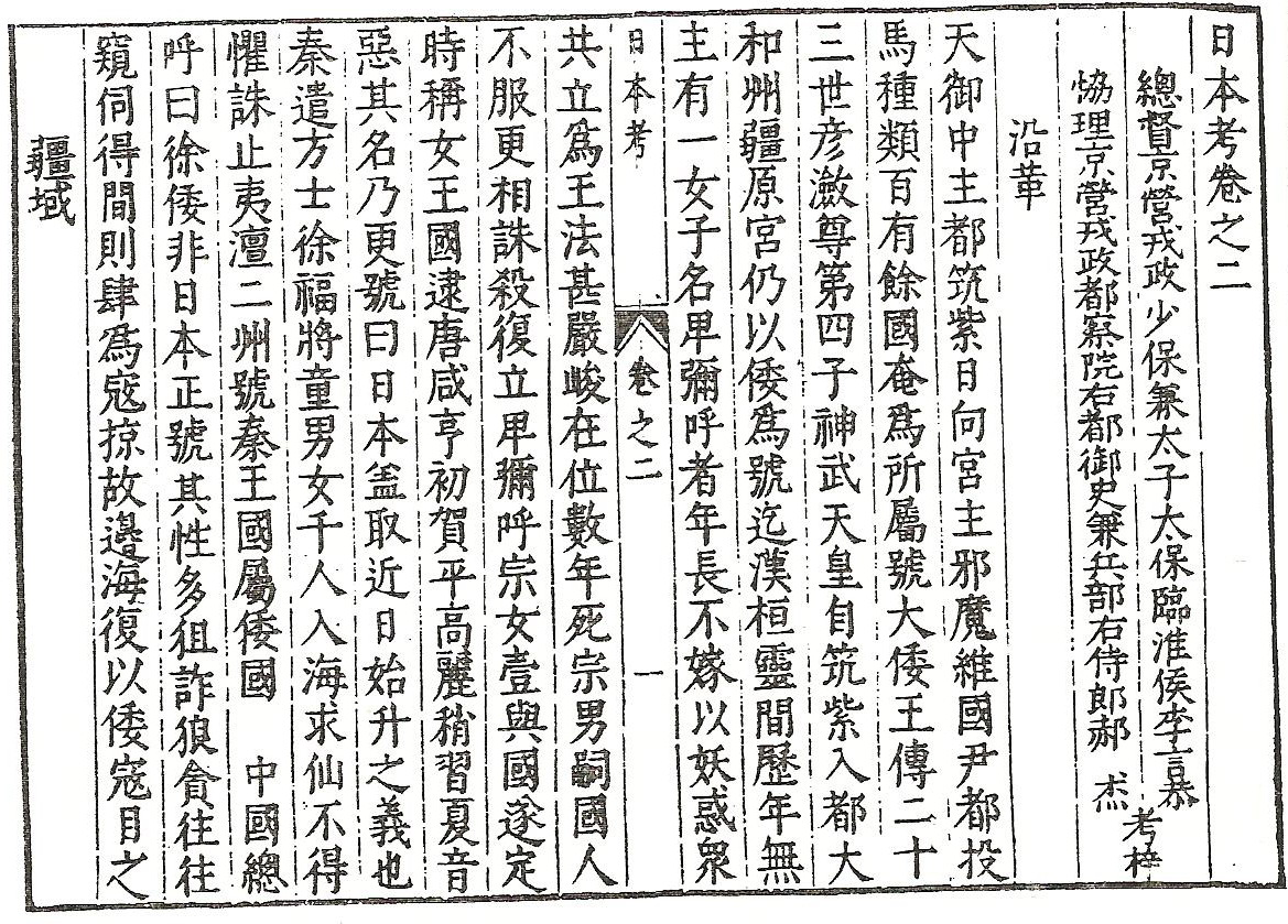 Ri Ben Kao (《日本考》, Records of Japan)